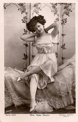 A typical still of French performer Gaby Desyls circa 1910s